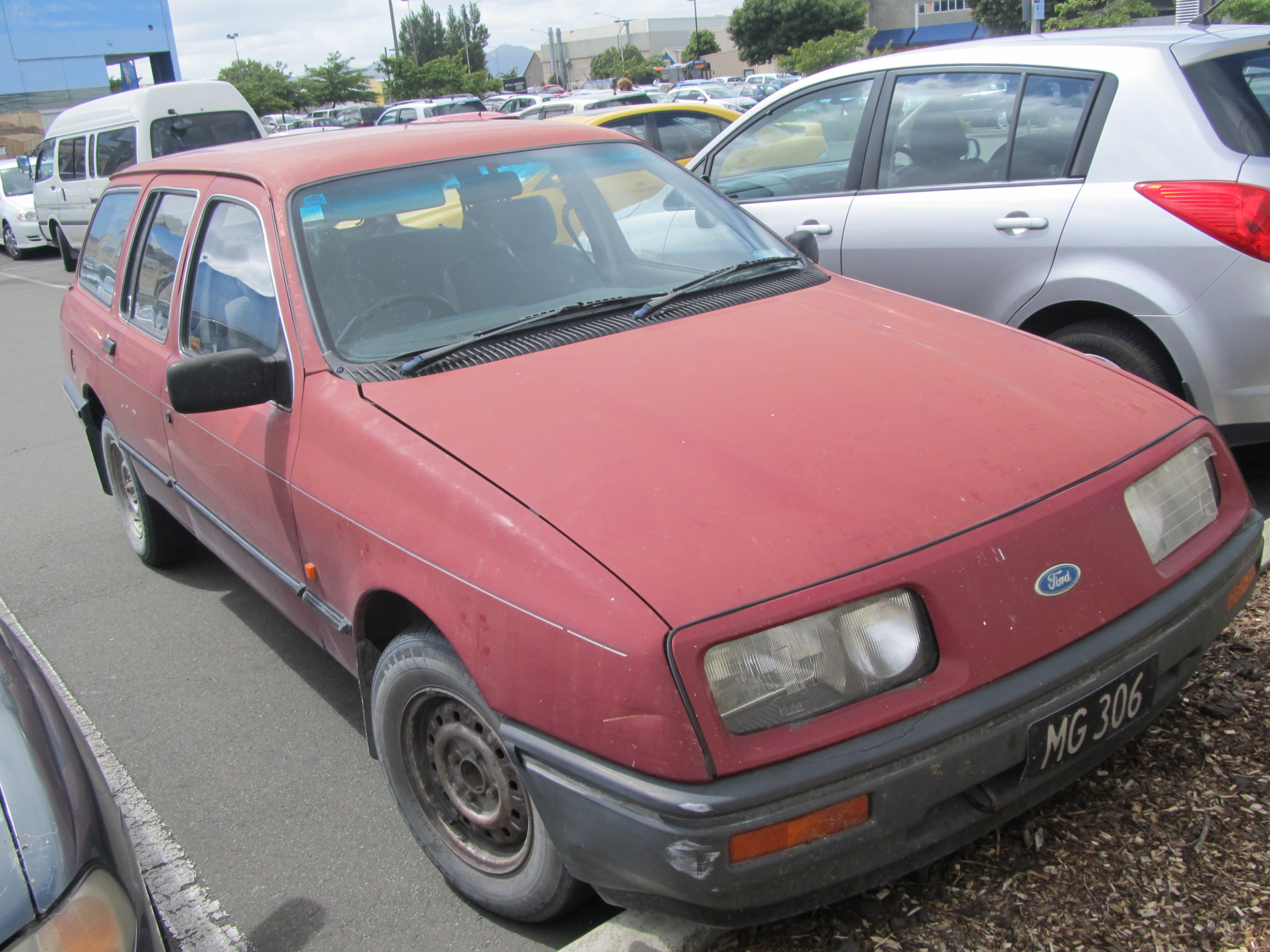 MG306 Proper autoshite, and apparently, according to CarJam, has travelled 600,000 kilometres... Somehow I doubt that! But it would have done a hefty mileage without a doubt. This is the oldest Sierra I have seen for ages, and sadly most of them look like this now, especially the wagons. The saloons were considered more upmarket here and hence are kept in better condition. Spotted while doing Christmas shopping, just in case anyone is interested to know how I ended up in this car park...